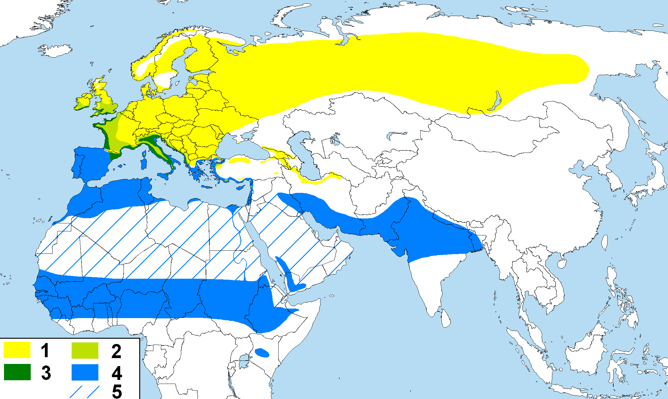 Phylloscopus collybita map1. Breeding; summer only 2. Breeding; small numbers also wintering 3. Breeding; also common in winter 4. Non-breeding winter visitor 5. Localised non-breeding winter visitor in suitable habitat only (oases, irrigated crops)